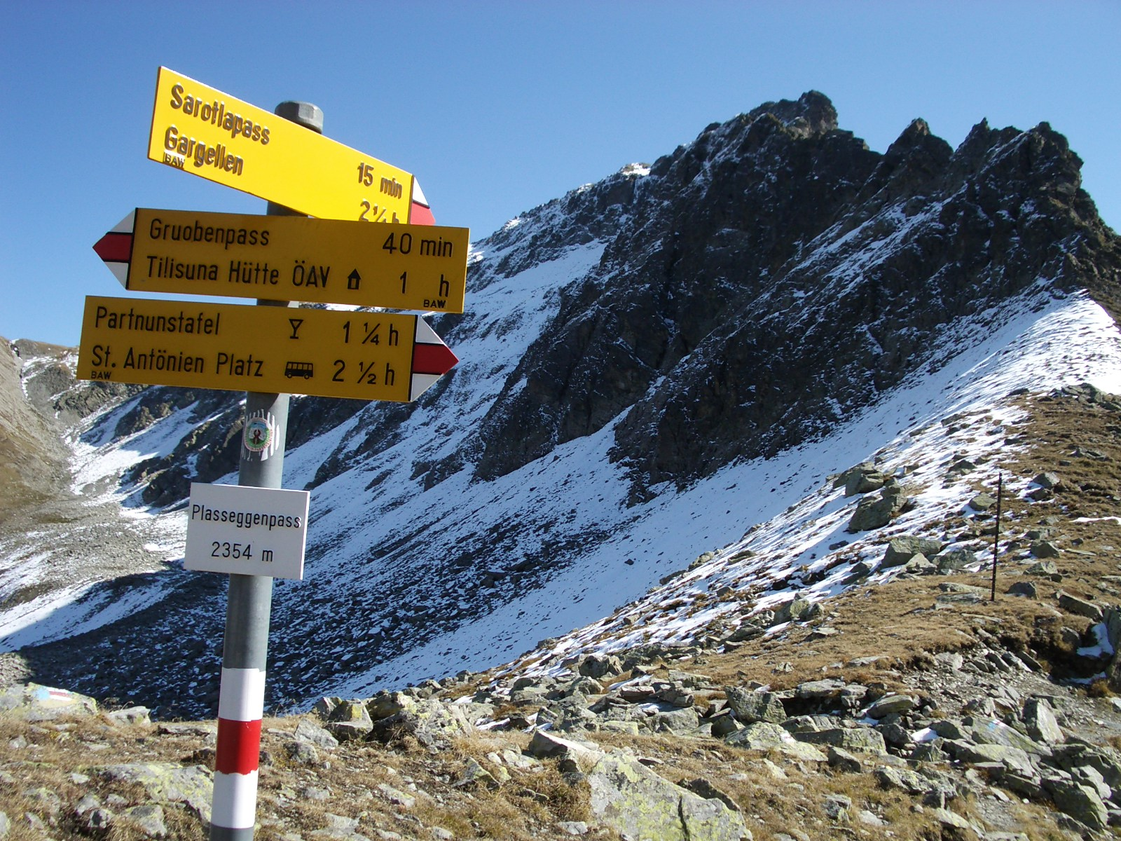 Plasseggen Pass, Switzerland/Austria, St.Antönien GR